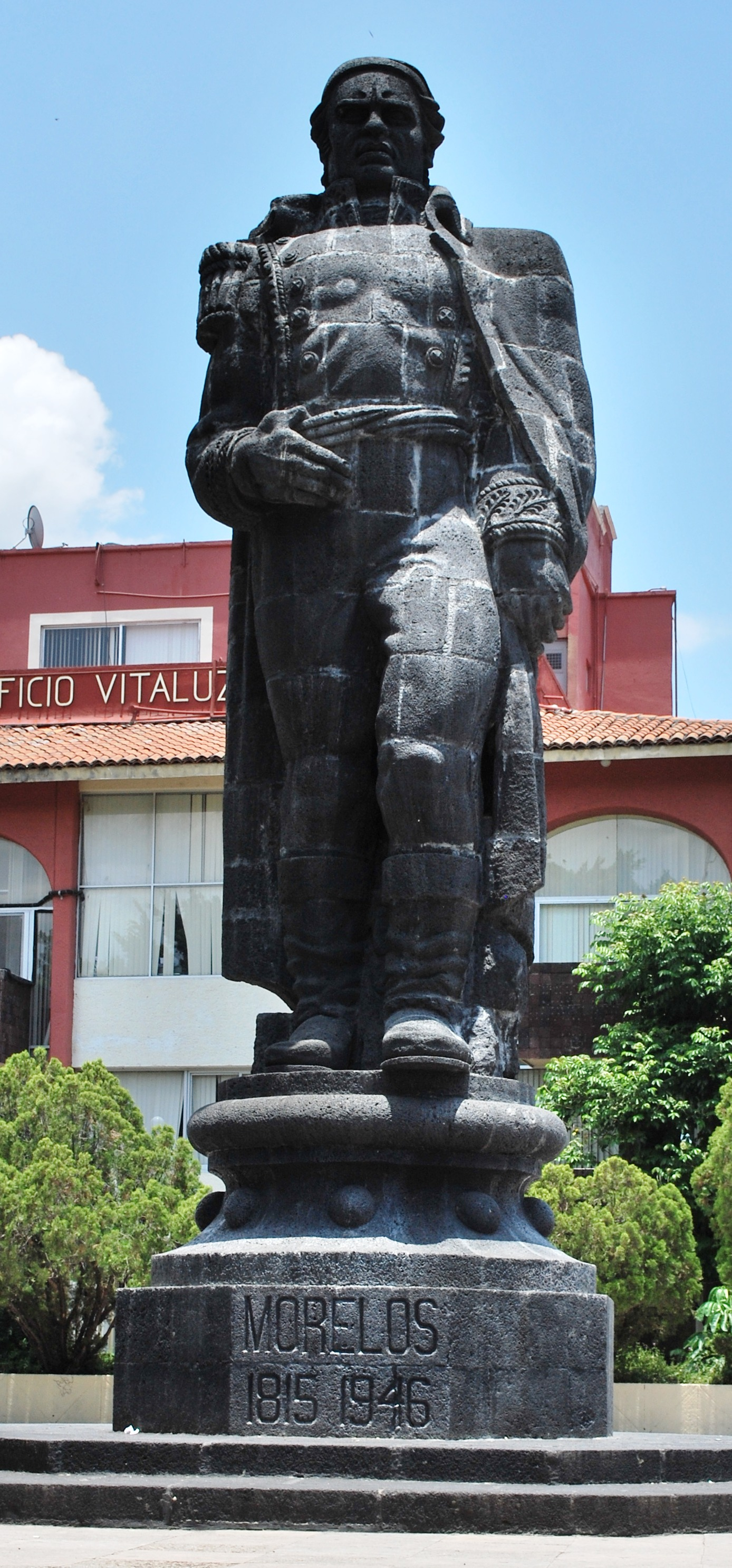 Statue of Jose Maria Morelos in Parque Morelos in downtown Cuernavaca, Morelos, Mexico